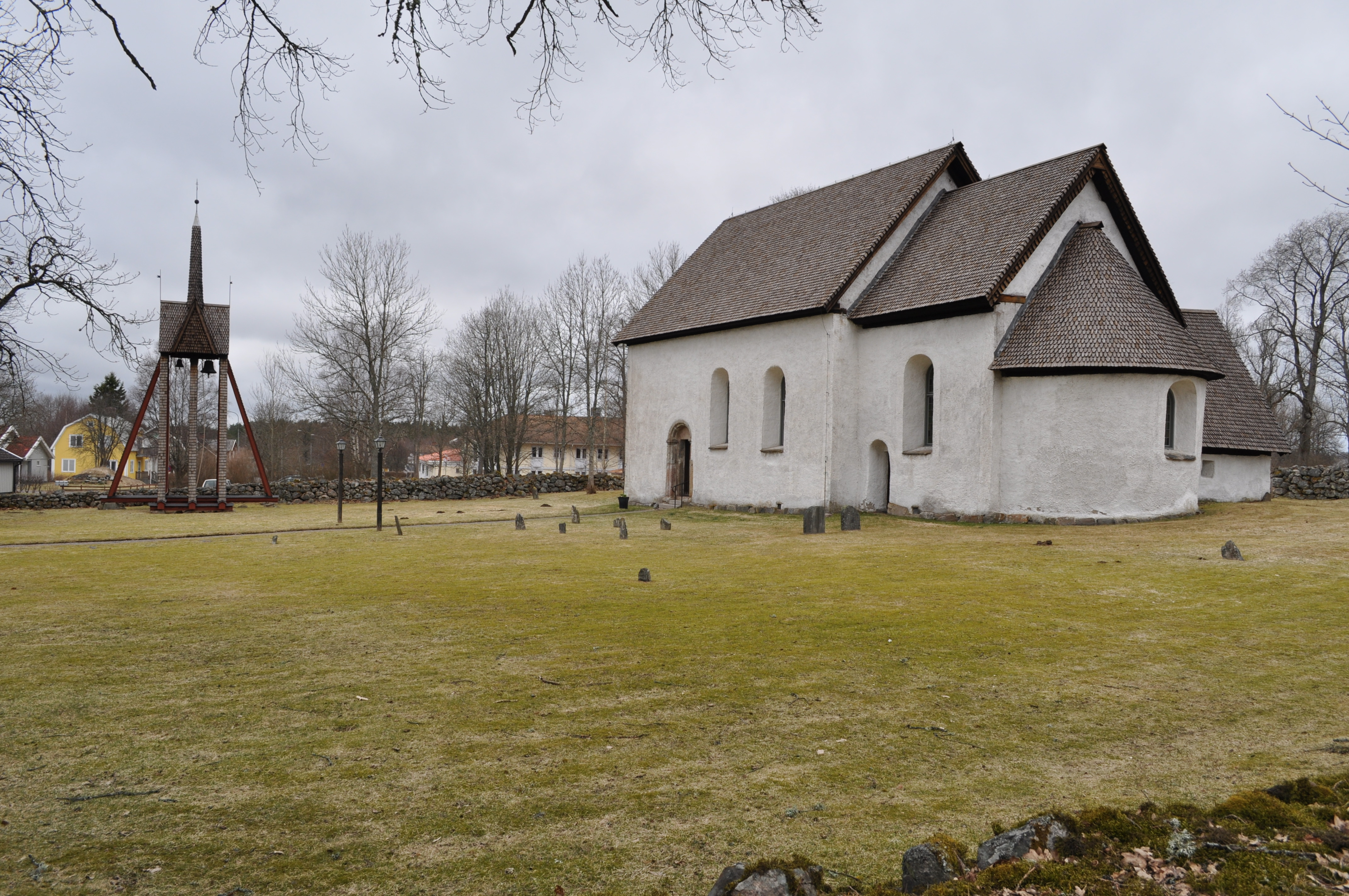 Myresjö old church